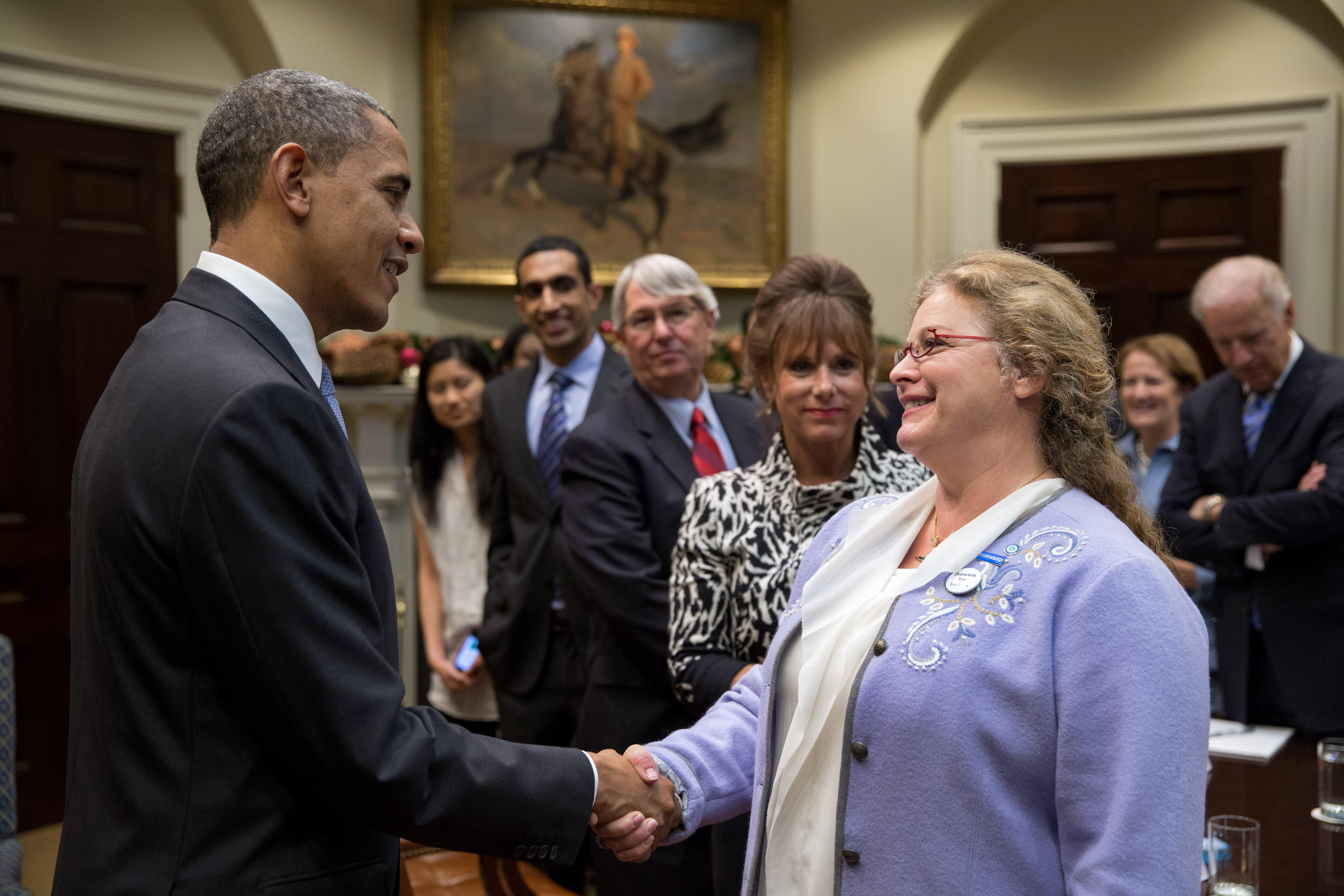 United States President Barack Obama talks with participants before a meeting with small business owners to discuss a balanced approach to the debt limit and deficit reduction, in the Roosevelt Room of the White House. The President is shaking hands with Deborah Carey, co-founder of Wisconsin's New Glarus Brewing Company, who is wearing a "Brewers for Barack" badge.